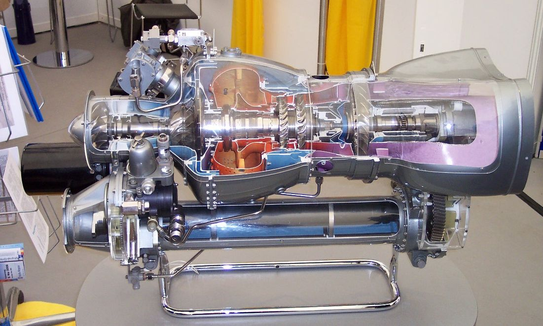 A sectioned Turbomeca Arriel turboashaft engine on display at ILA 2006